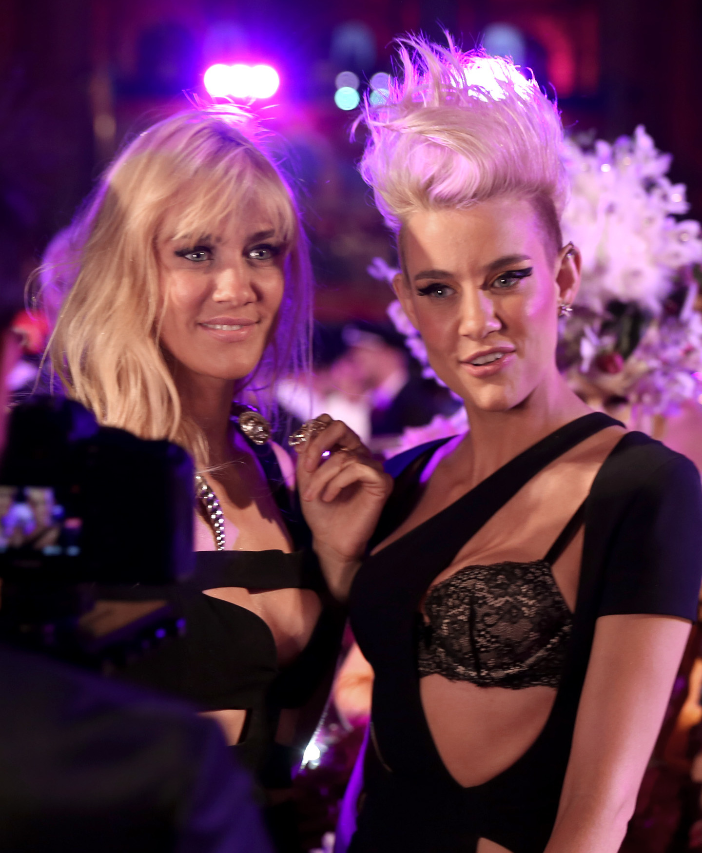 Life Ball 2014: Miriam and Olivia Nervo on the red carpet on the square in front of the Rathaus (Town Hall) of Vienna, Austria.